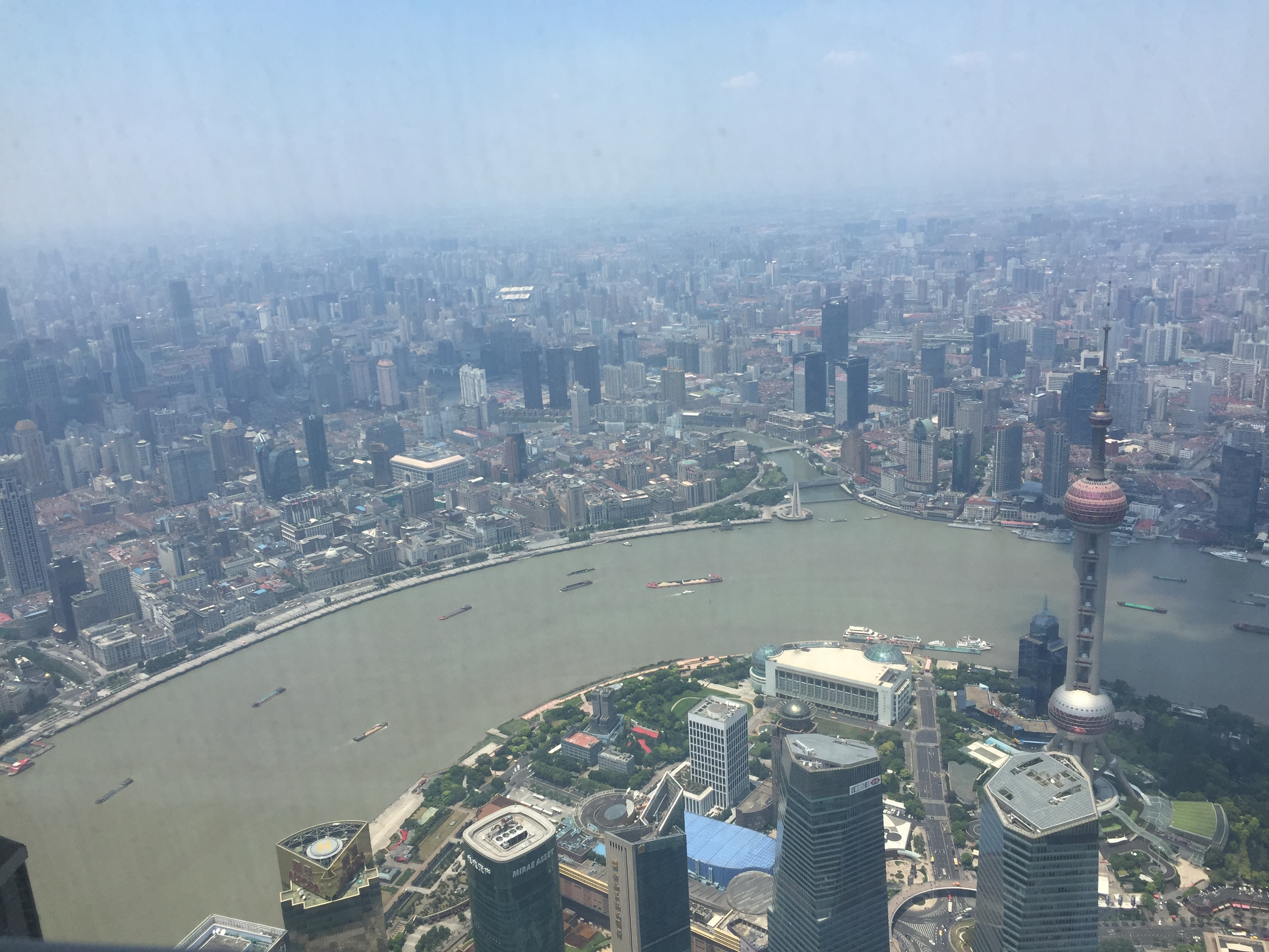 View from Shanghai Tower Observation Deck showing The Bund, Huangpu River, and The Oriental Pearl Tower